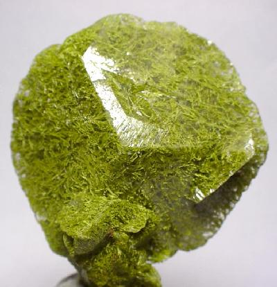 Calcite Locality: Tsumeb Mine (Tsumcorp Mine), Tsumeb, Otjikoto (Oshikoto) Region, Namibia (Locality at ) A unique specimen, so richly included with dendritic mottramite that there might even be more mottramite than calcite inside of it! I think the pics pretty much show how interesting, colorful, and dramatic it is...both sides are pristine, and shown in the images. Moreover, it is a floater. 5 x 4.5 x 3 cm